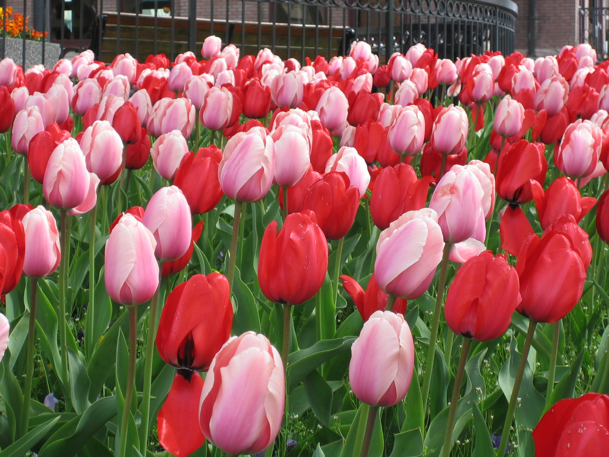 Tulips in April, in front of the Legislature buildings in Victoria. Close-up. Photo by Terry korte, April 2006.